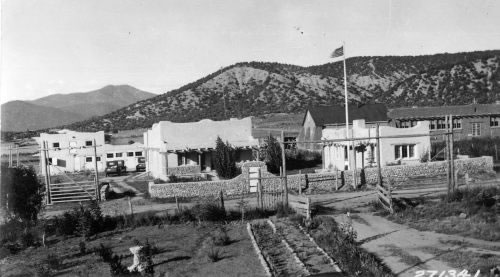 1932—Penasco Ranger Station Group. Photo by W. G. Koogler. FS #271341